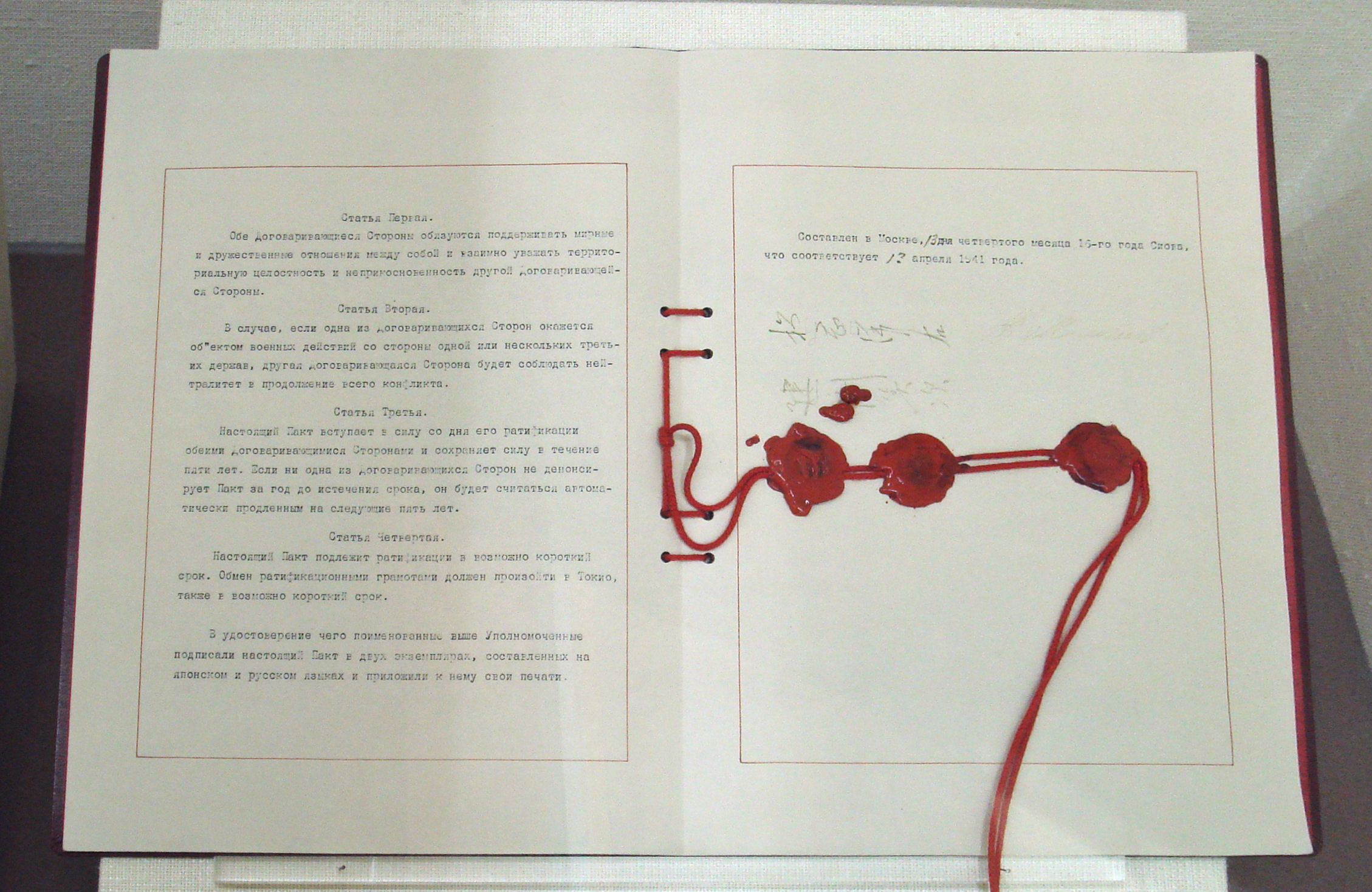 The Soviet-Japanese Neutrality Pact (1941), showing the signatures of Foreign Minister 松岡洋右 Matsuoka Yōsuke and Ambassador 建川美次 Tatekawa Yoshitsugu.